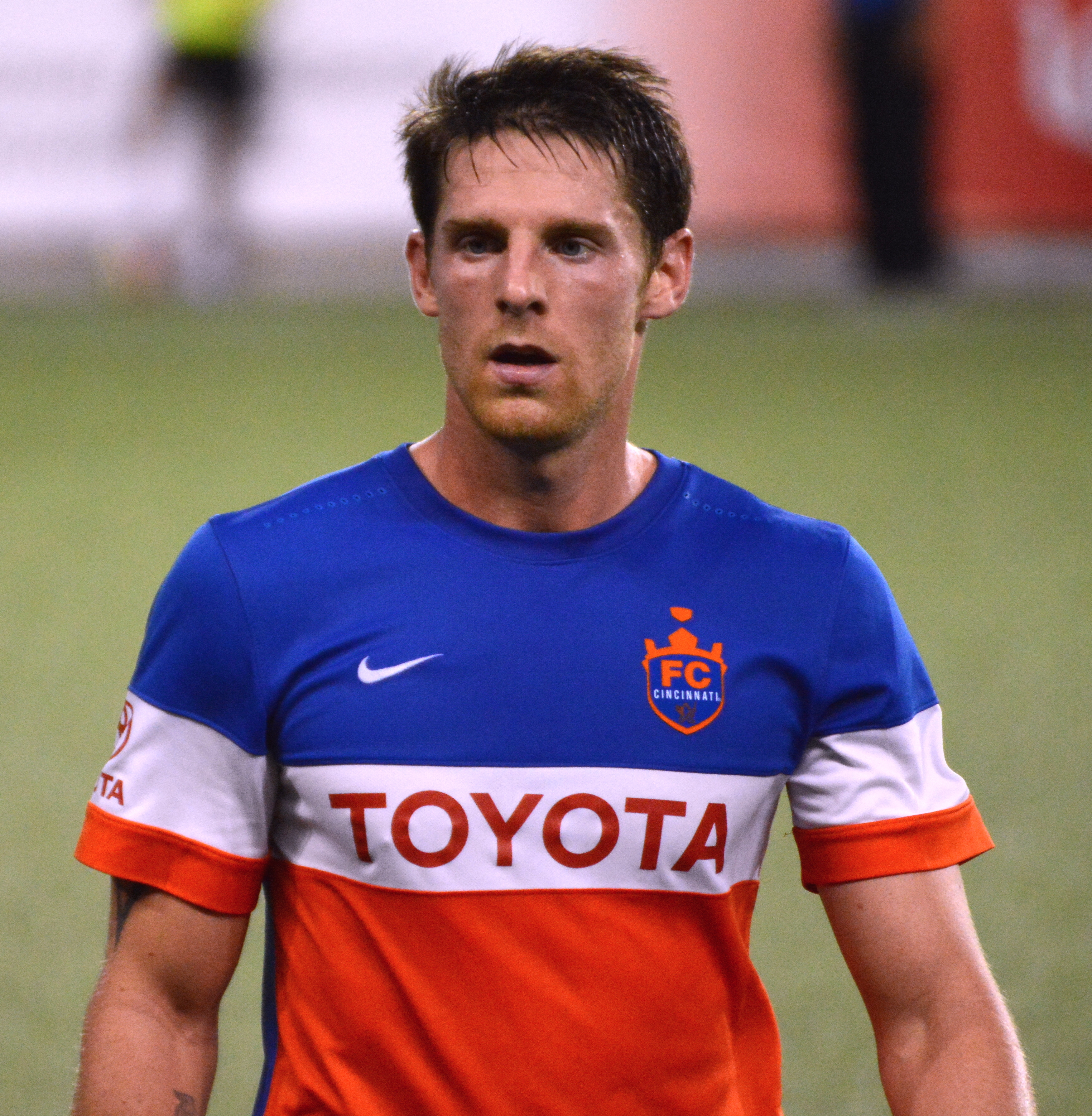 Irish footballer Daryl Fordyce, a forward for American club FC Cincinnati, playing in a match between FC Cincinnati and Bethlehem Steel FC at Nippert Stadium in Cincinnati, USA on May 20, 2017